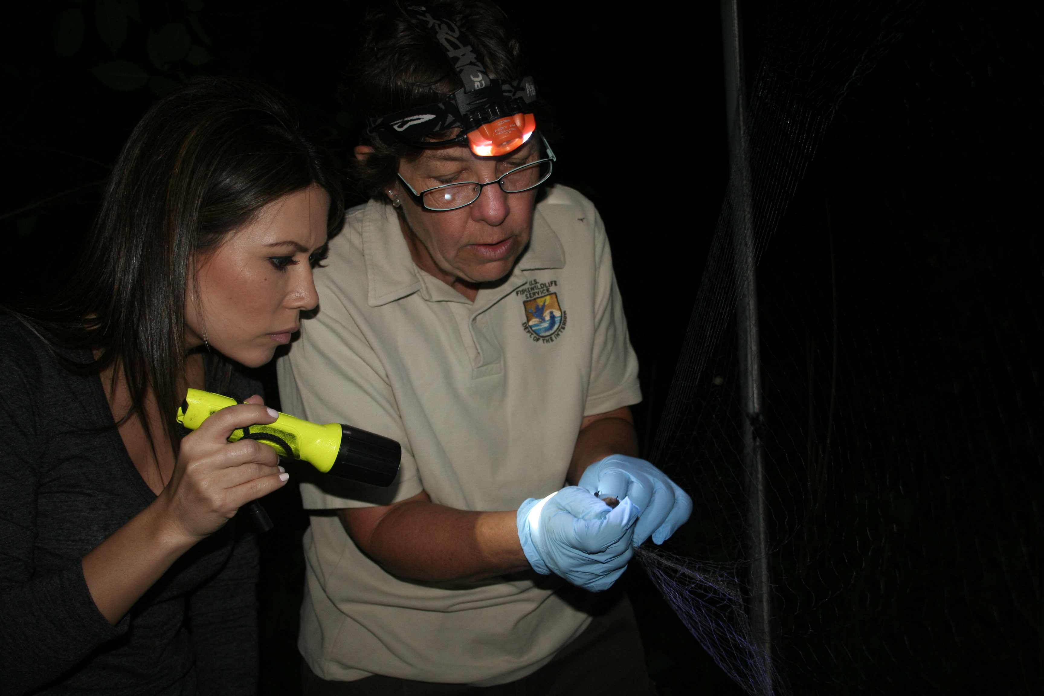 CBS Anchorwoman Betty Nguyen and USFWS endangered species biologist Susi von Oettingen photo credit: Ann Froschauer/USFWS